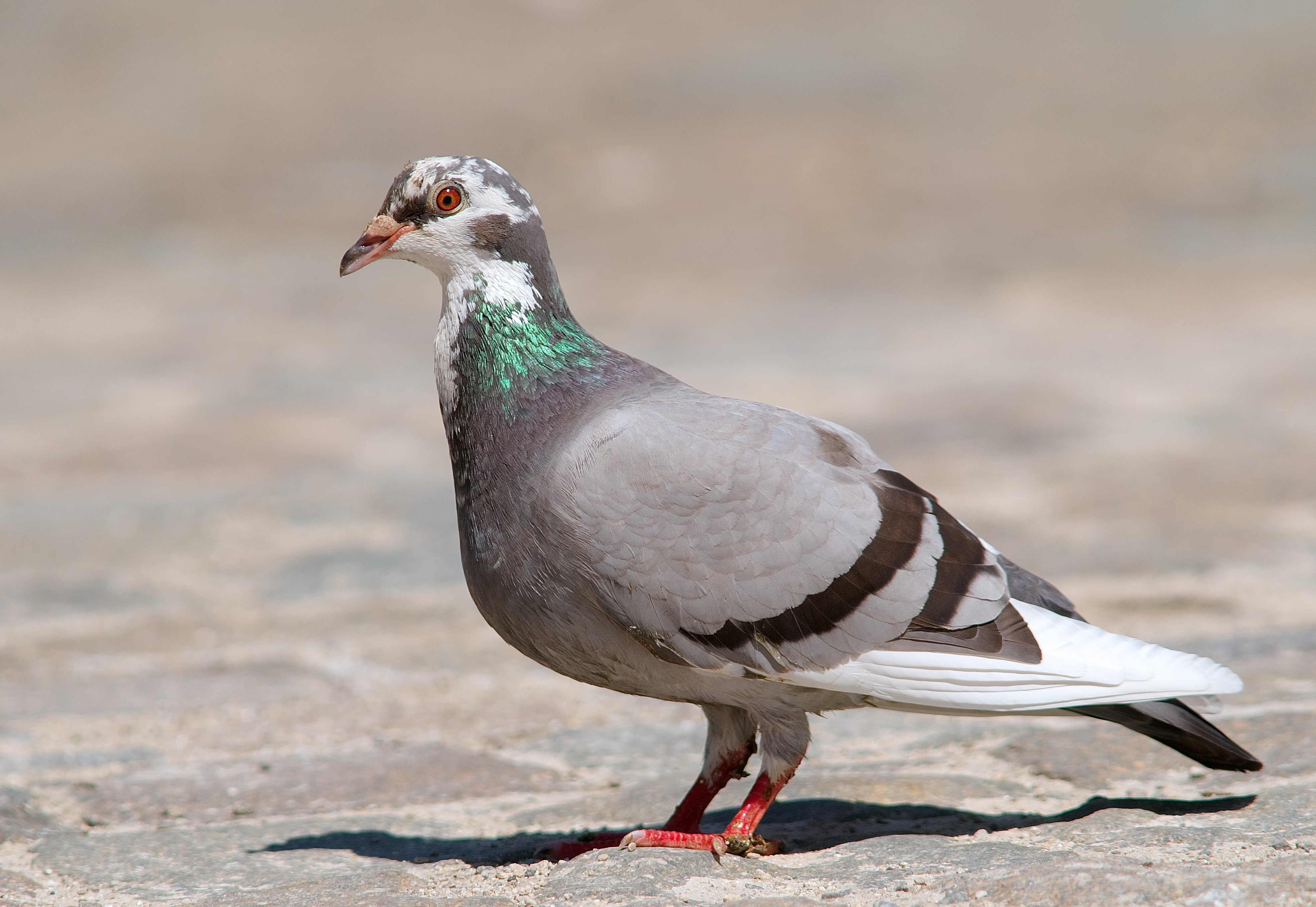 Feral Rock Pigeon Columba livia (in Belgium) fait à Bruxelles cimetière du Dieweg Uccle